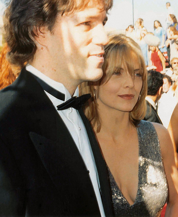 Michelle Pfeiffer and David E. Kelley at the 47th Emmy Awards